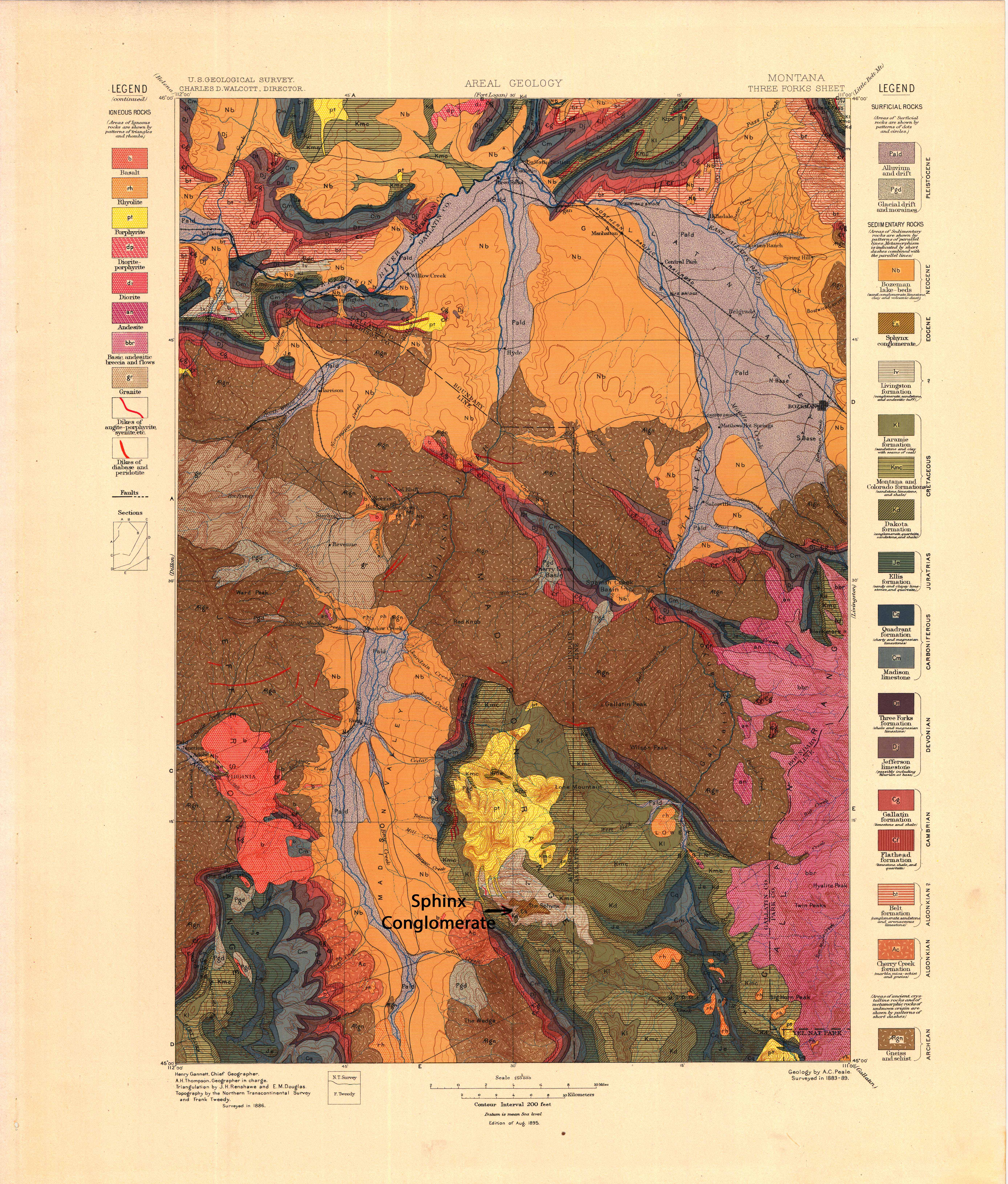 Three Forks folio, Montana [Areal Geology]